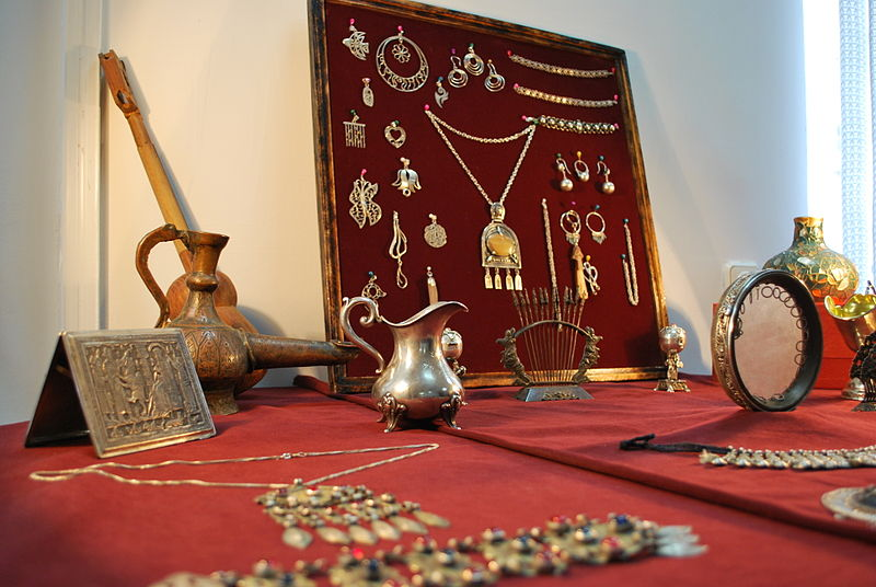 Khazar University jewelry center display